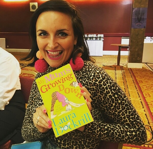 image from instagram